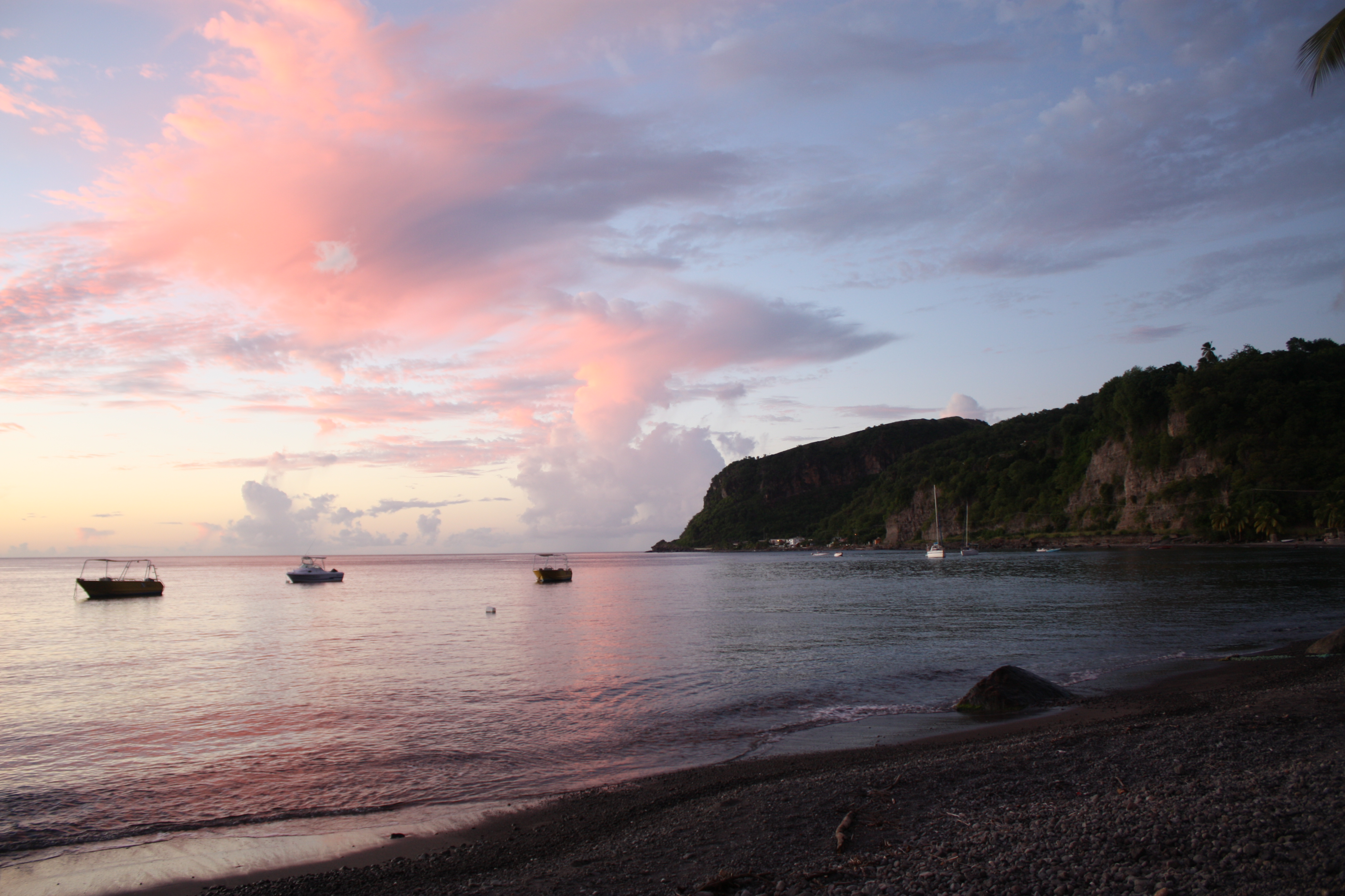 View north across Batalie Bay, Dominica to Coulibistrie, at sunset.